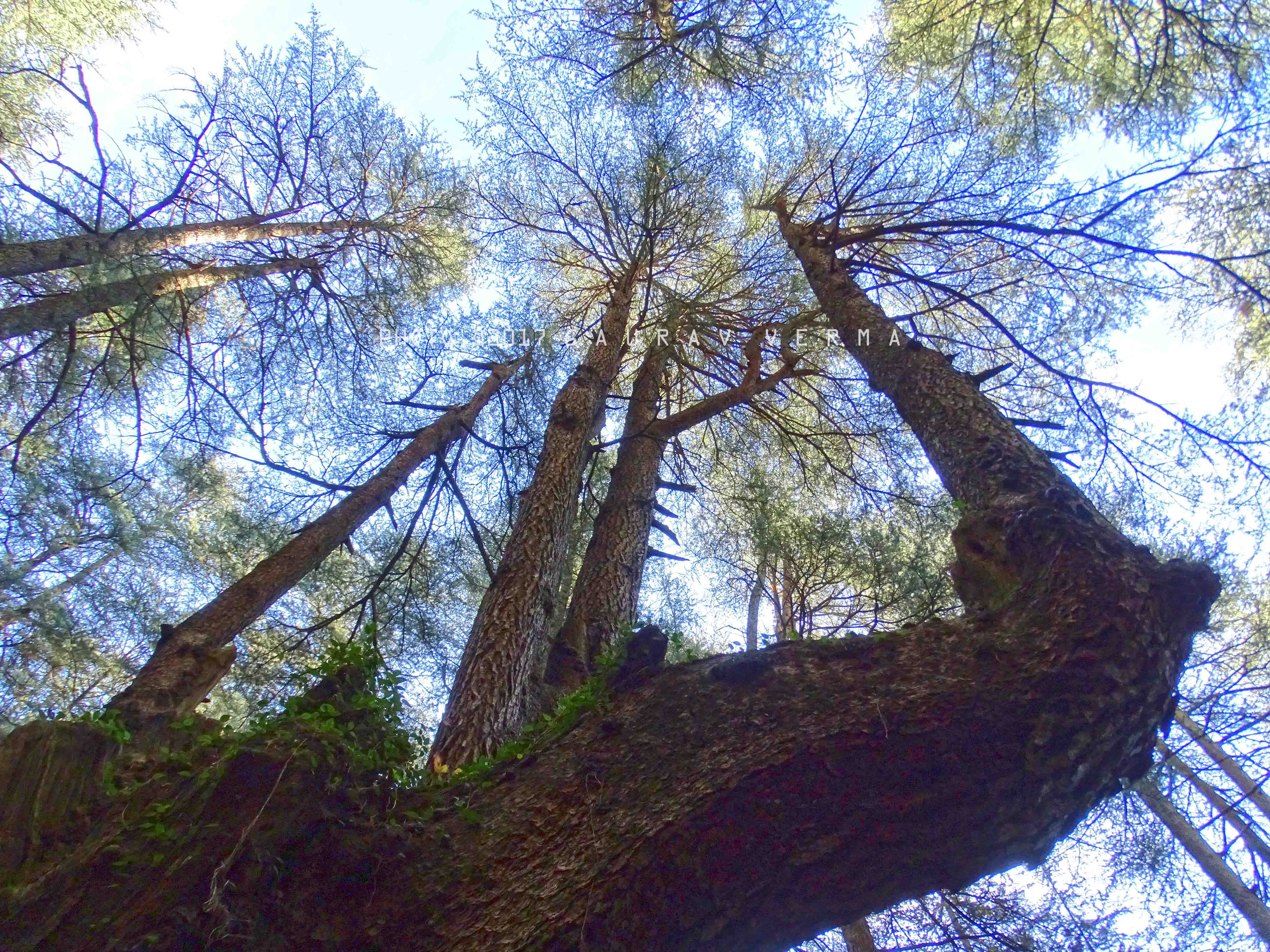 Mature tree in its natural habitat.